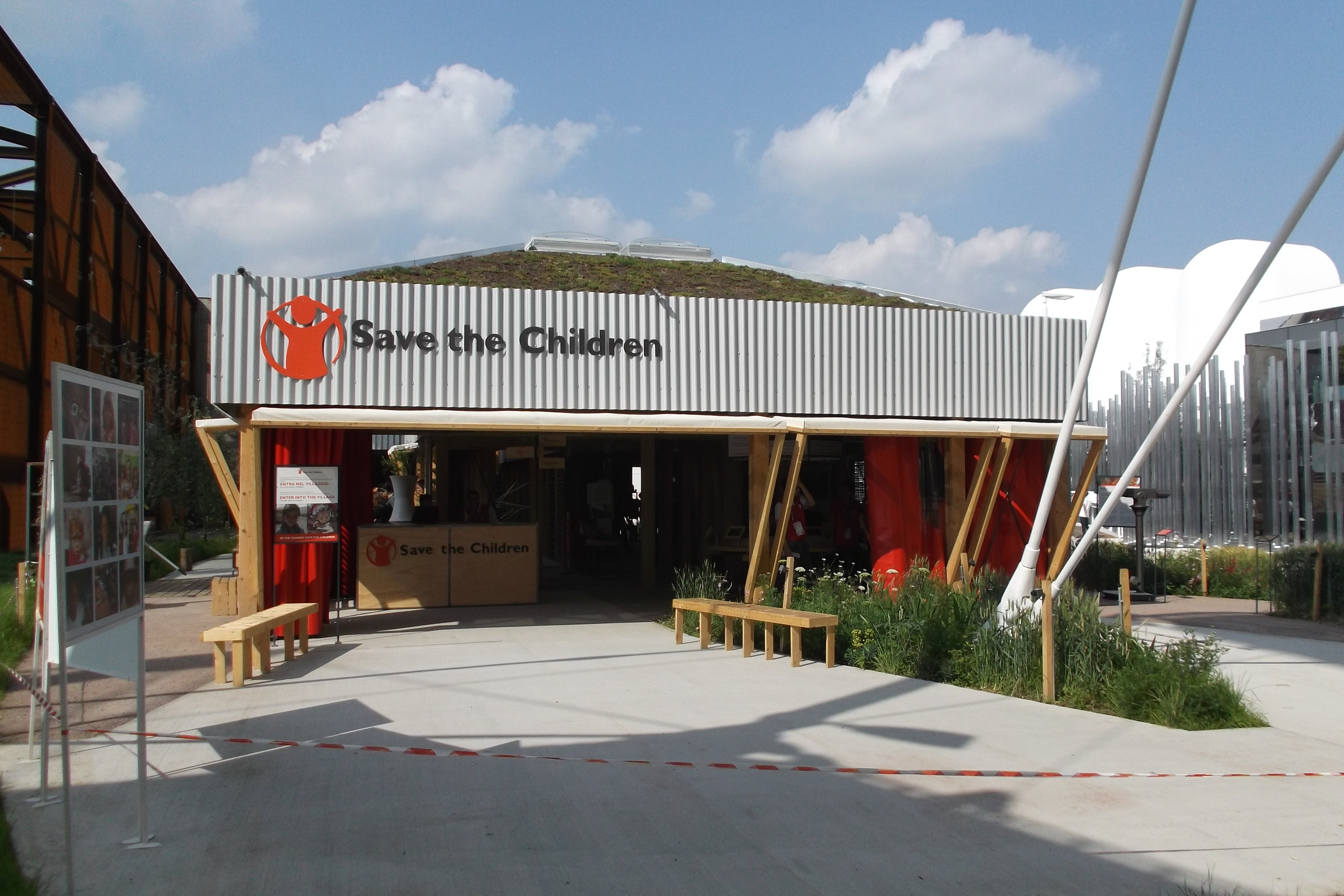 Save the Children Pavillon at Expo 2015